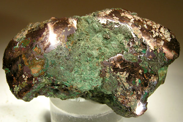 Copper Locality: Ontonagon County, Michigan, USA A 12.1-ounce nugget of natural native copper from the glacial drifts of Michigan, polished on one side to show its penny-bright luster, which contrasts nicely with the antique patina in the recessed areas. 8.5 x 5.8 x 3.1 cm. Ontonagon County locality at .